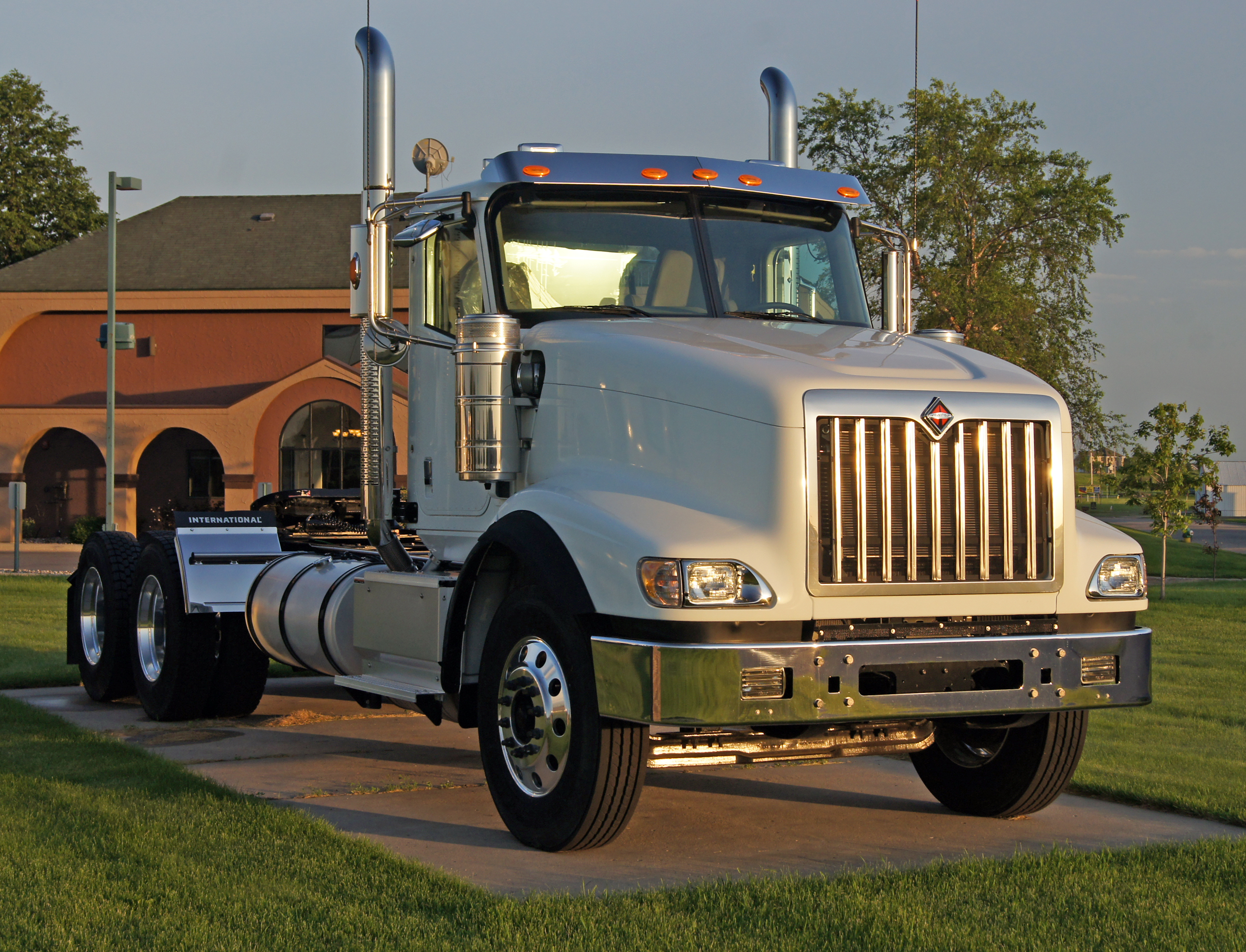 Click here for more car pictures at my Flickr site.